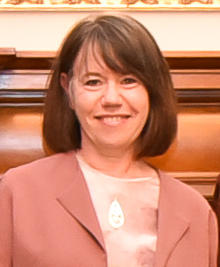 Caroline McElnay, at a dinner at Government House, Wellington, on 26 May 2020.